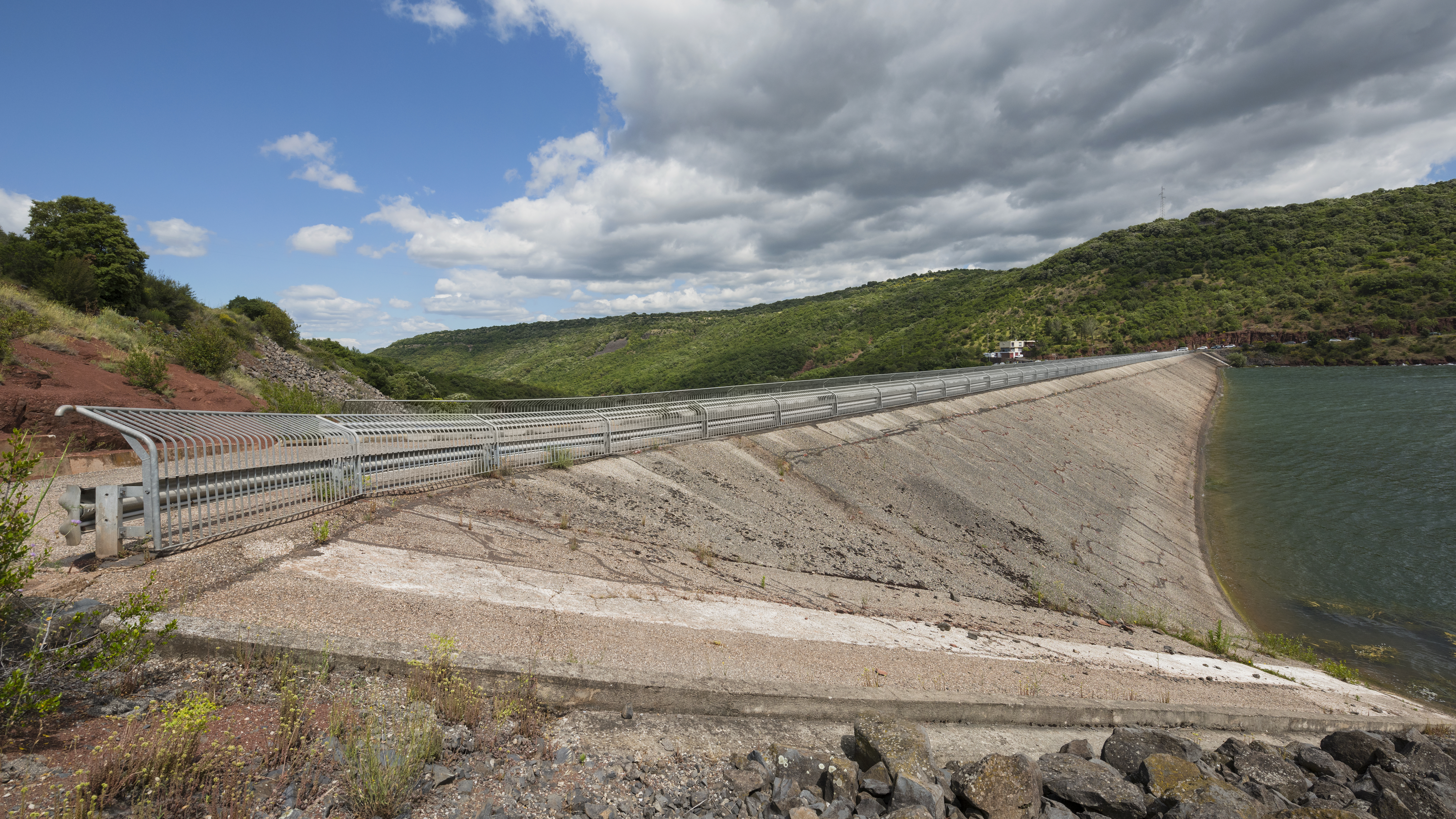 Close view of the upstream side of the Barrage du Salagou (Salagou Dam). Clermont-l'Hérault, Hérault, France